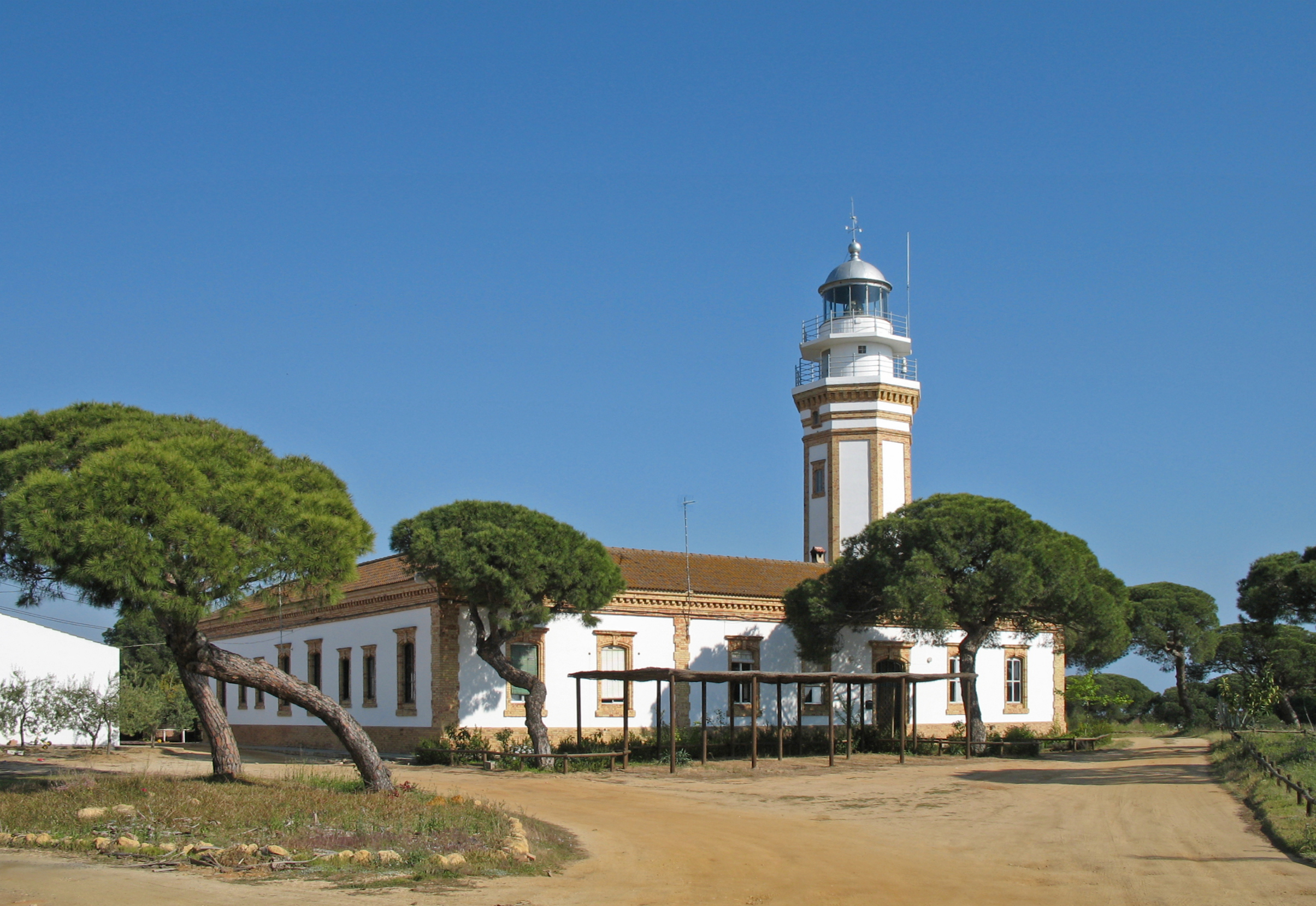 The lighthouse of Mazagón (Province of Huelva, Spain)